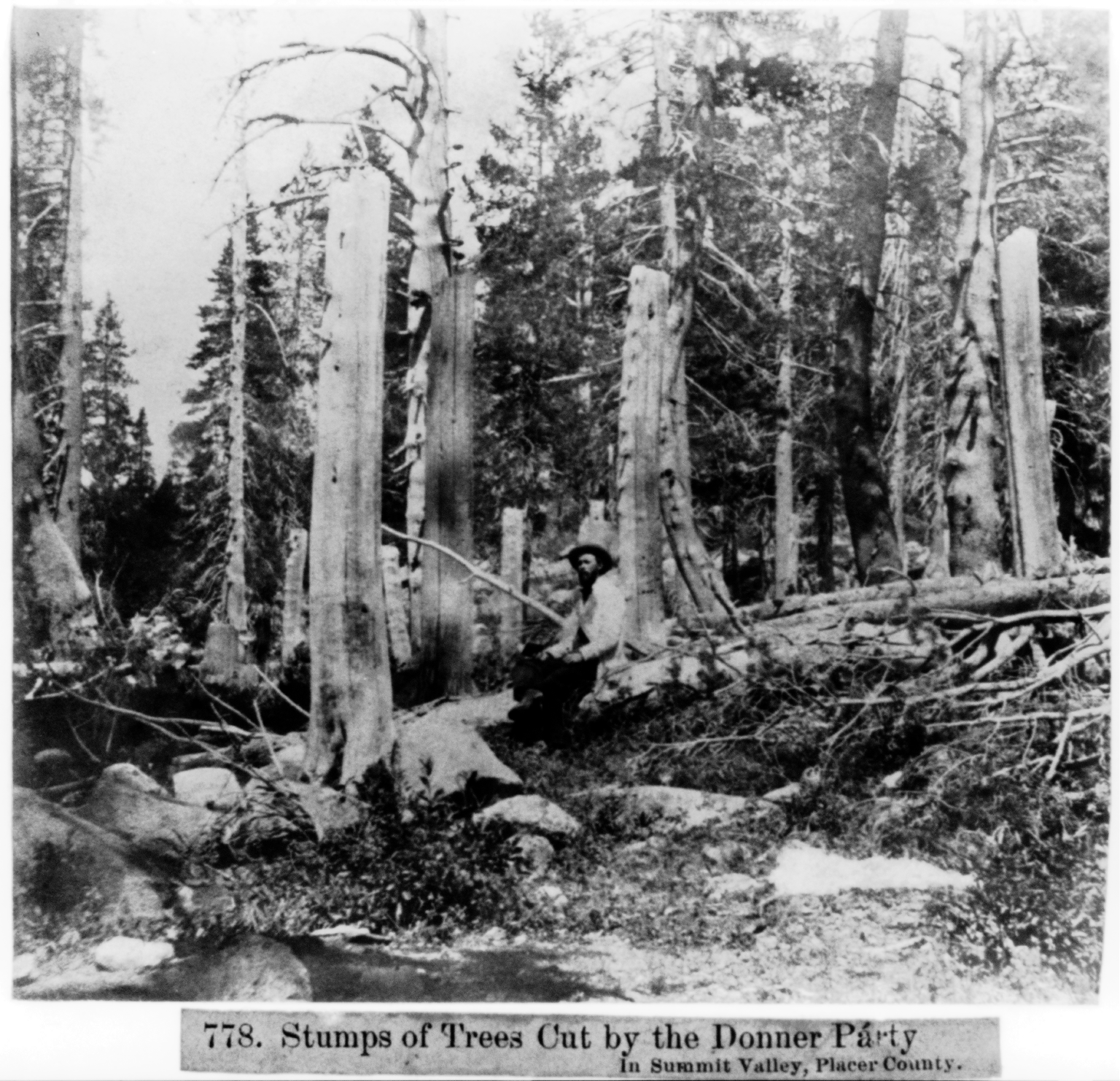 Stumps of trees cut by the Donner Party in Summit Valley, Placer County.